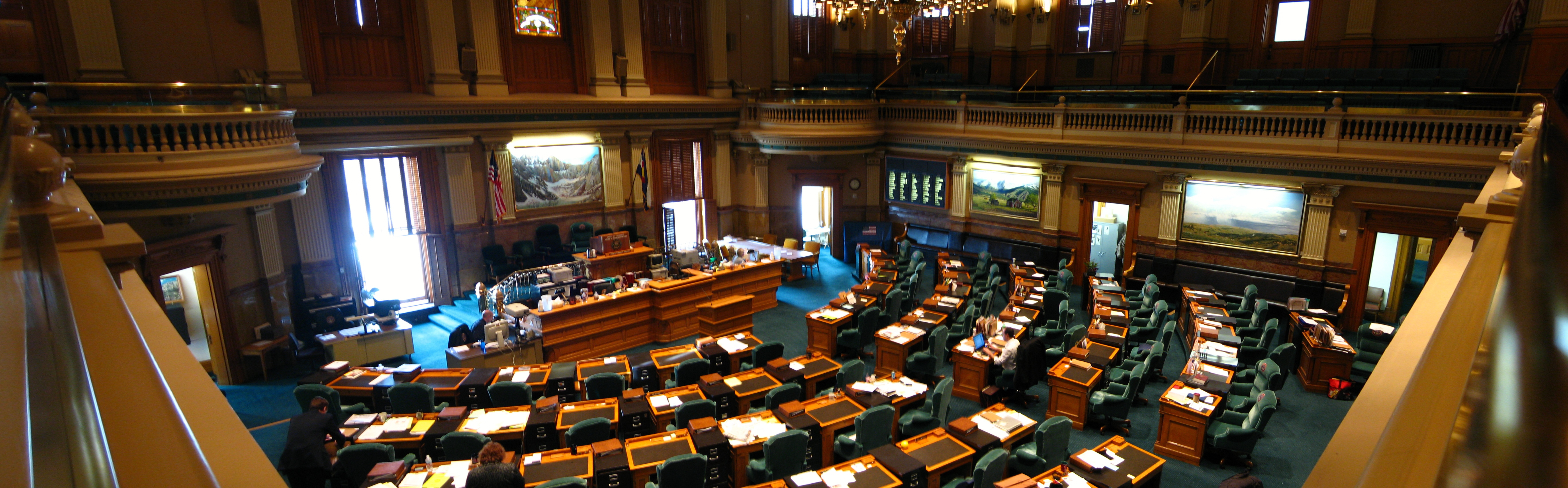 House of Representatives, Colorado State Capitol Building, Denver, Colorado, USA